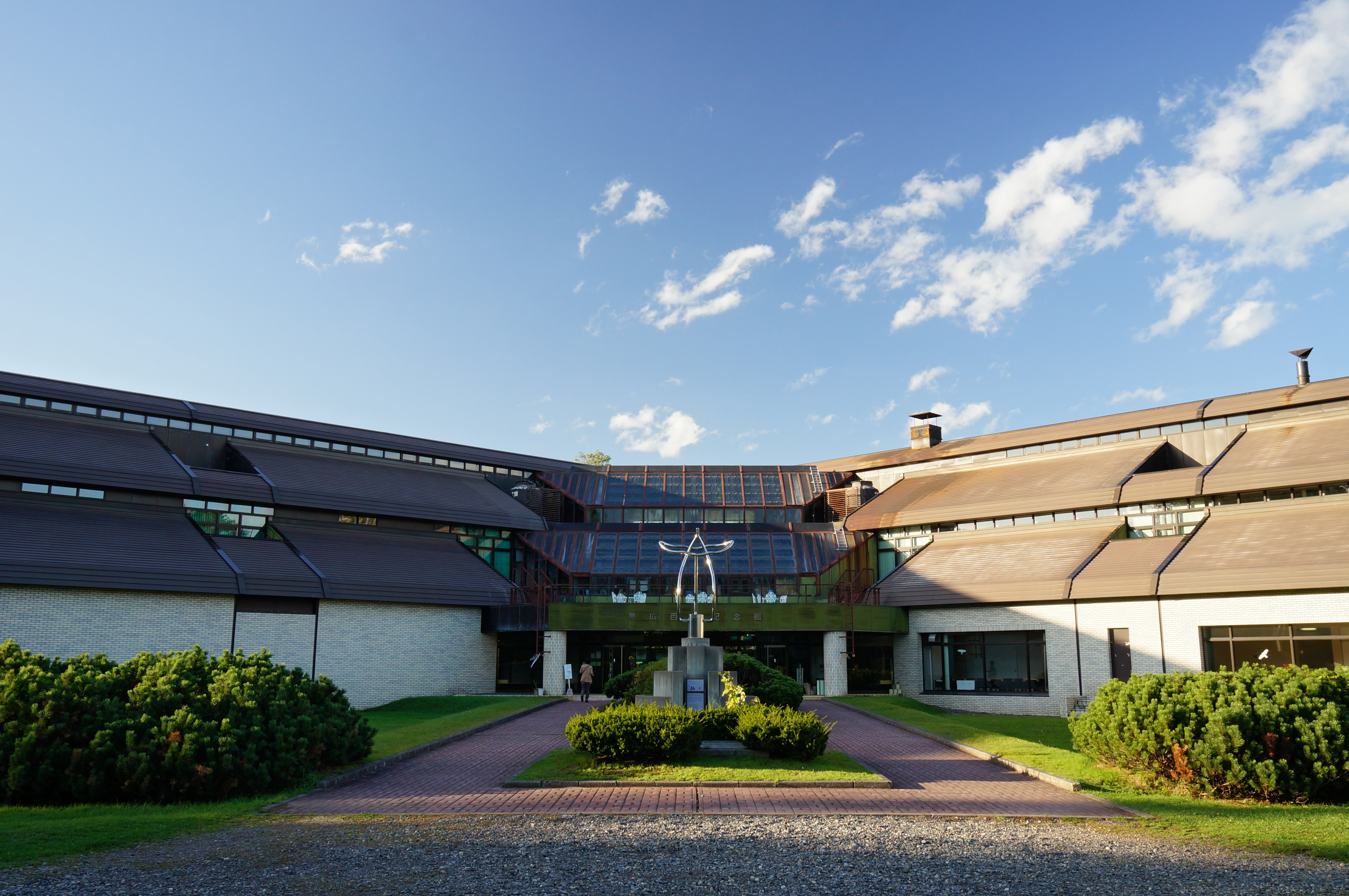 Obihiro Centennial City Museum in Obihiro, Hokkaido prefecture, Japan.